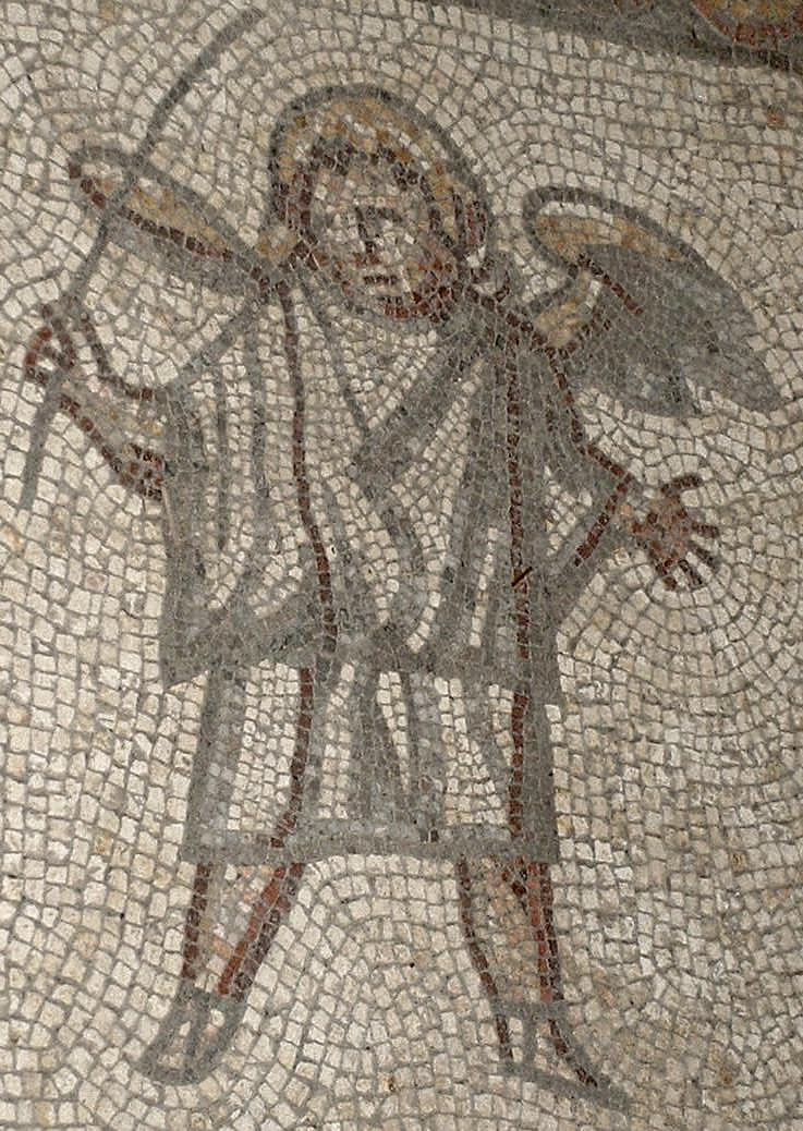 Ancient Roman mosaics at the Bignor Villa (UK): Rudarius.